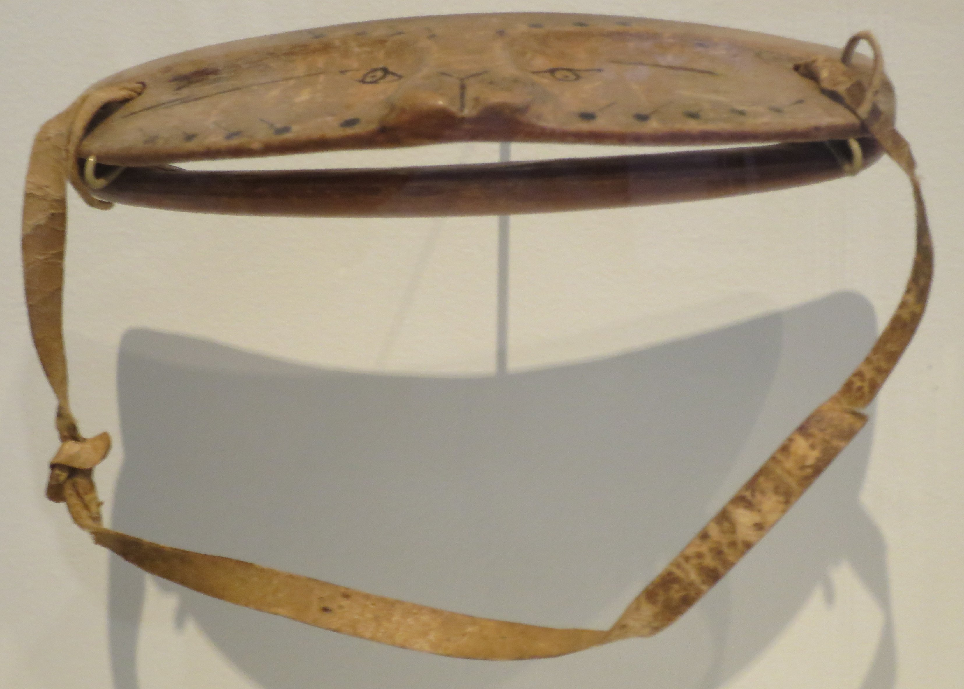 Inuit/Inupiat snow goggles, Nunivak Island, Alaska, first half of 20th century, carved wood, paint/ink, leather, Honolulu Museum of Art